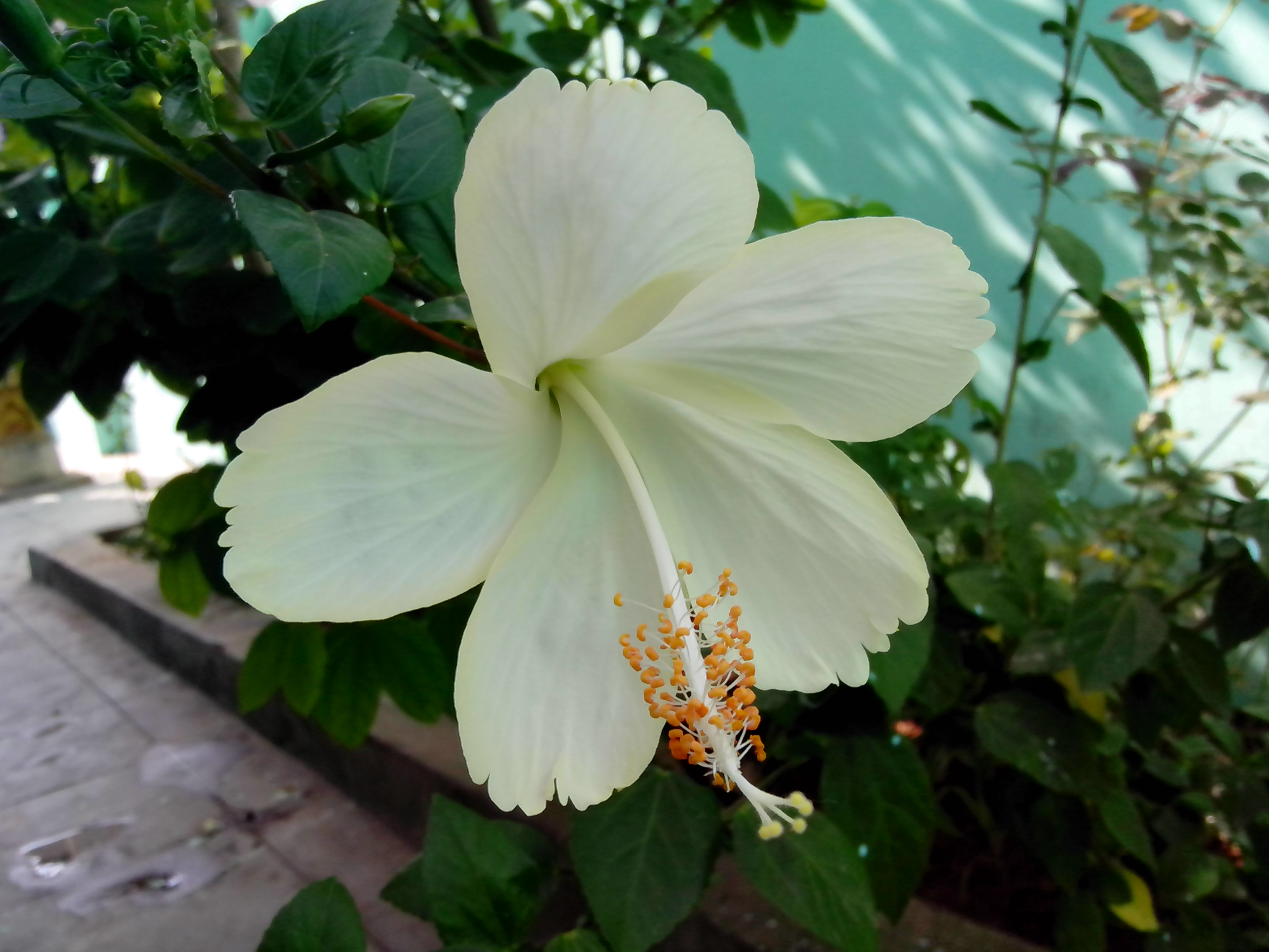 Hibiscus rosa-sinensis cultivator at Madhurawada in Visakhapatnam